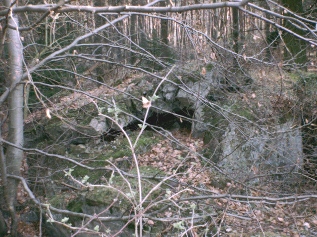 Ruins of German Westwall bunker in the Bienwald.